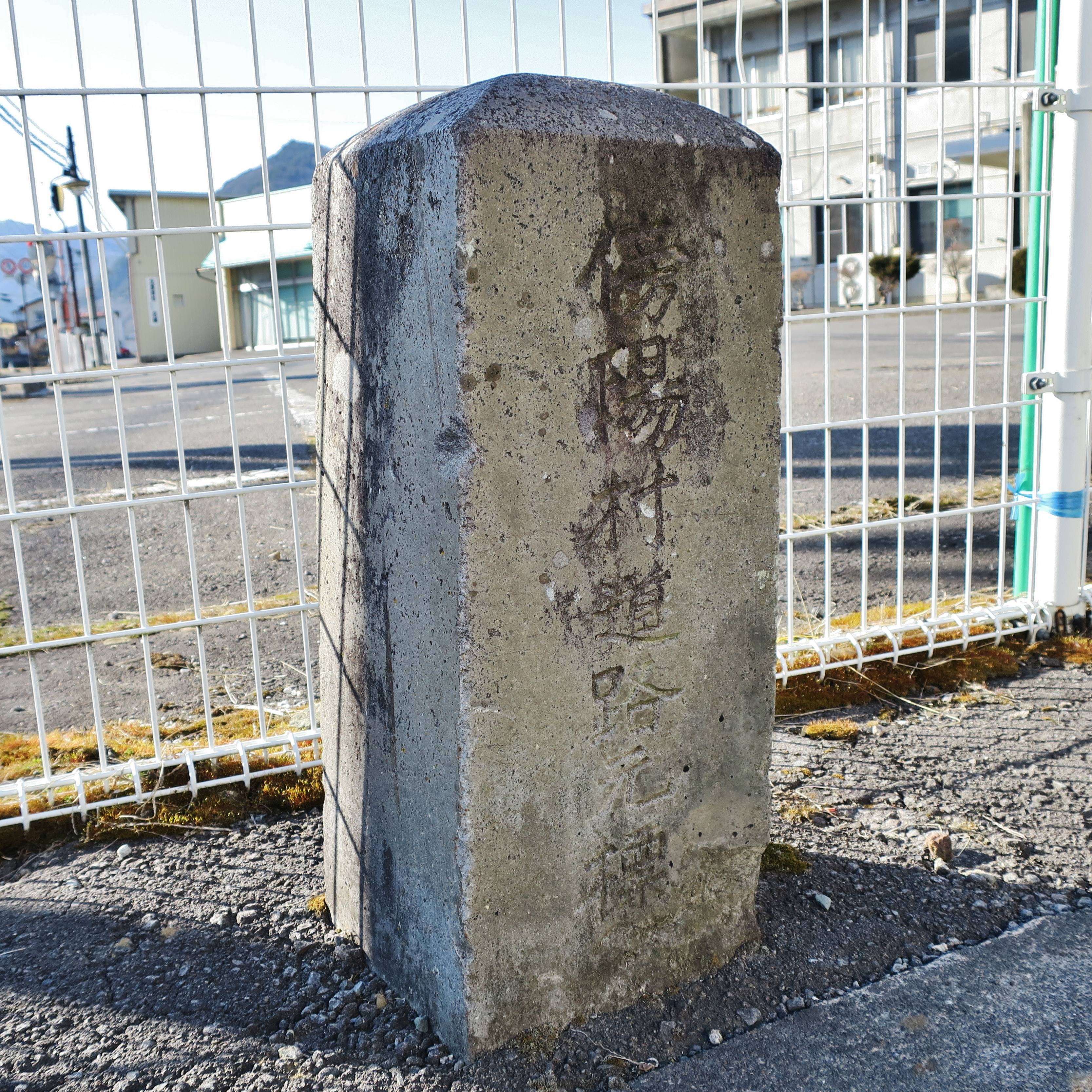 Soehi village Kilometre Zero.